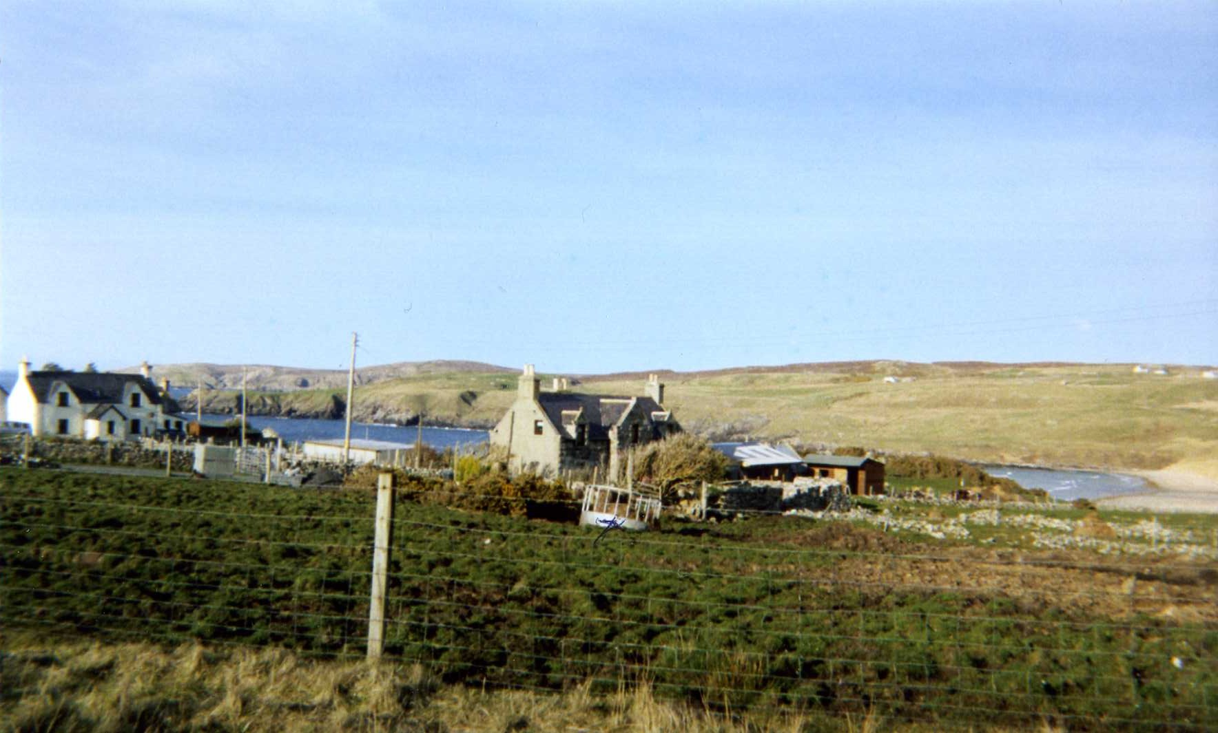 A view of Armadale Village looking out over Armadale Bay